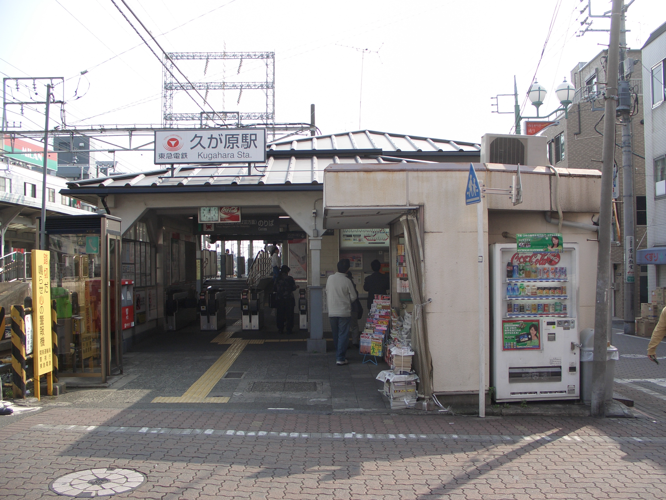 Tokyu Ikegami Line Kugahara Station, gate for Gotanda